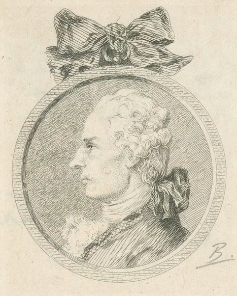 French writer André-Robert Andréa de Nerciat (1739-1800) by Félix Bracquemond (1833-1914).